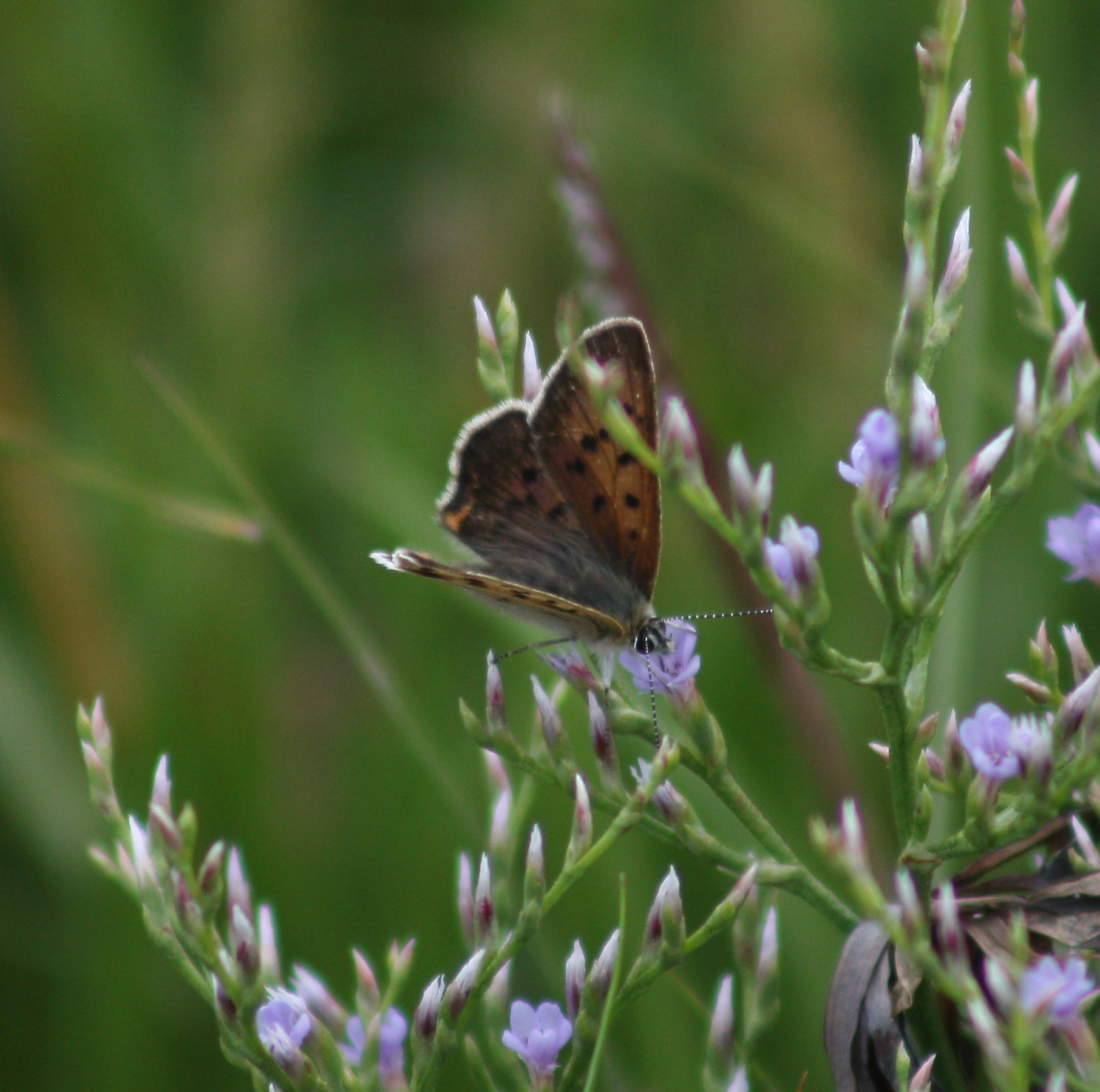 Maritime Copper (Lycaena dospassosi) on sea lavender (Limonium nashii). Saint-Siméon-de-Bonaventure. August 4, 2016.